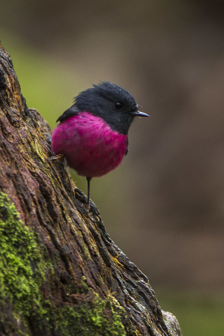 Pink Robin - Mt.Field - Tasmania_S4E6915